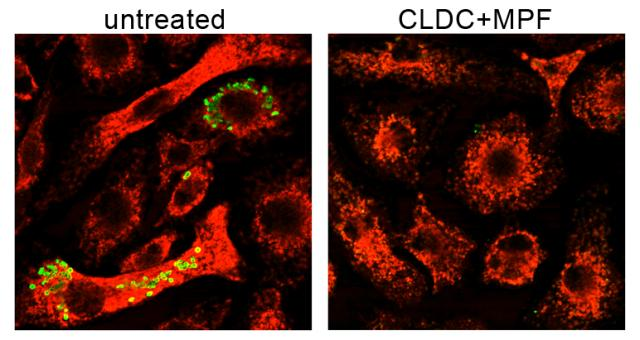 Novel therapeutic protects against multiple bacterial pathogens The image, taken with a fluorescent microscope, shows mouse macrophages (red) 12 hours after infection with a virulent strain of Francisella tularensis (stained green). The cells on the left are untreated, while the cells on the right were treated 3 days in advance with CLDC+MPF. The untreated cells fail to control replication of F. tularensis. In contrast, cells activated with the CLDC+MPF therapeutic have nearly eliminated all of the bacteria. National Institute of Allergy and Infectious Diseases (NIAID)